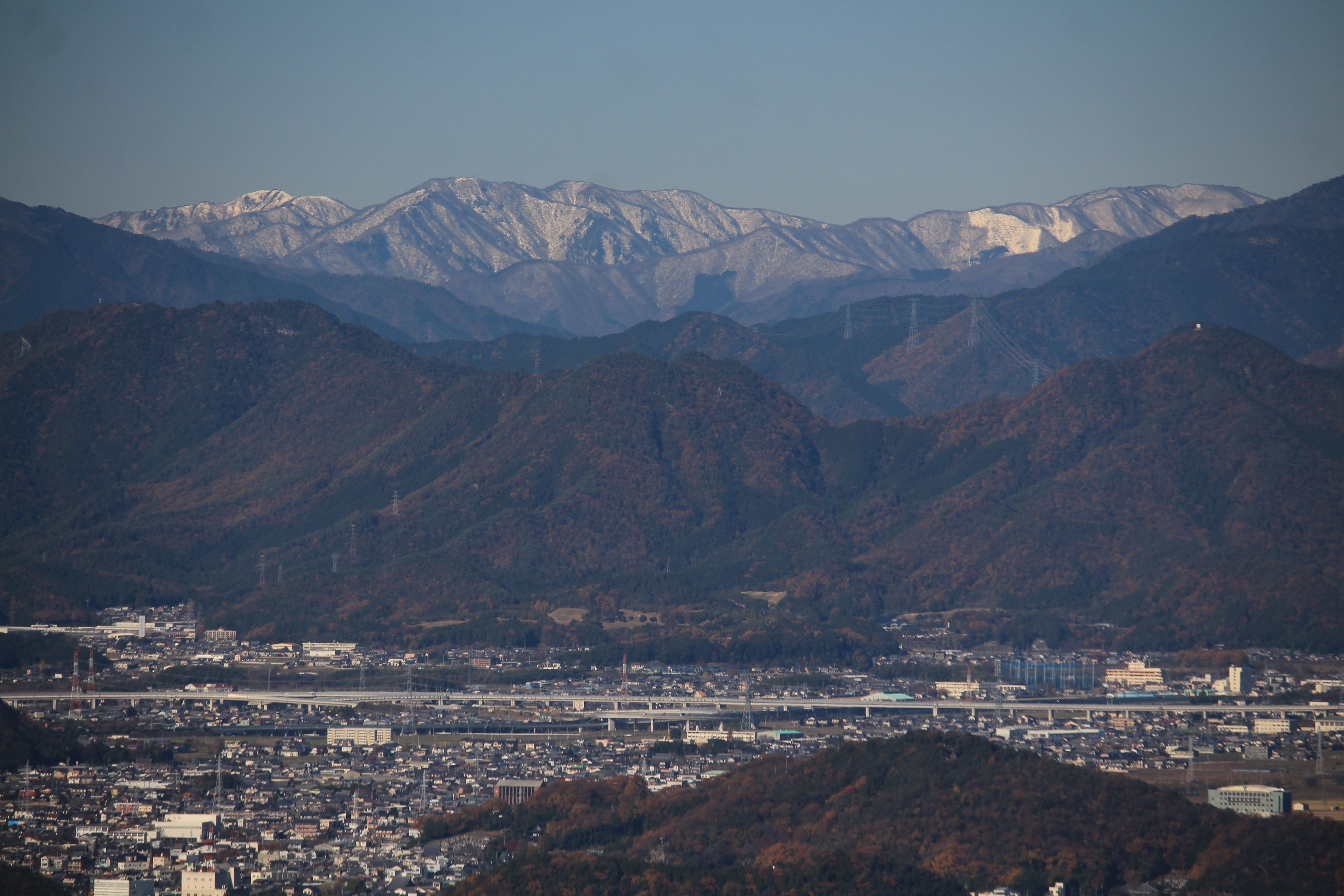 Mino-Seki Junction seen from Mount Meio in Gifu prefecture, Japan.